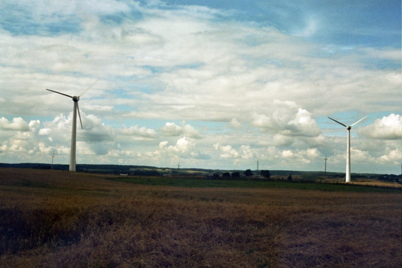 Wizajny wind farm